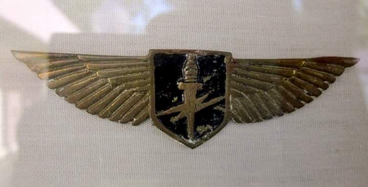 Special Group Badge. Special Group was a part of the Special Frontier Force. This is the older badge of SG.